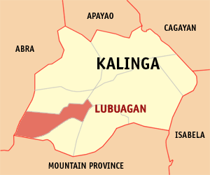 Map of Kalinga showing the location of Lubuagan